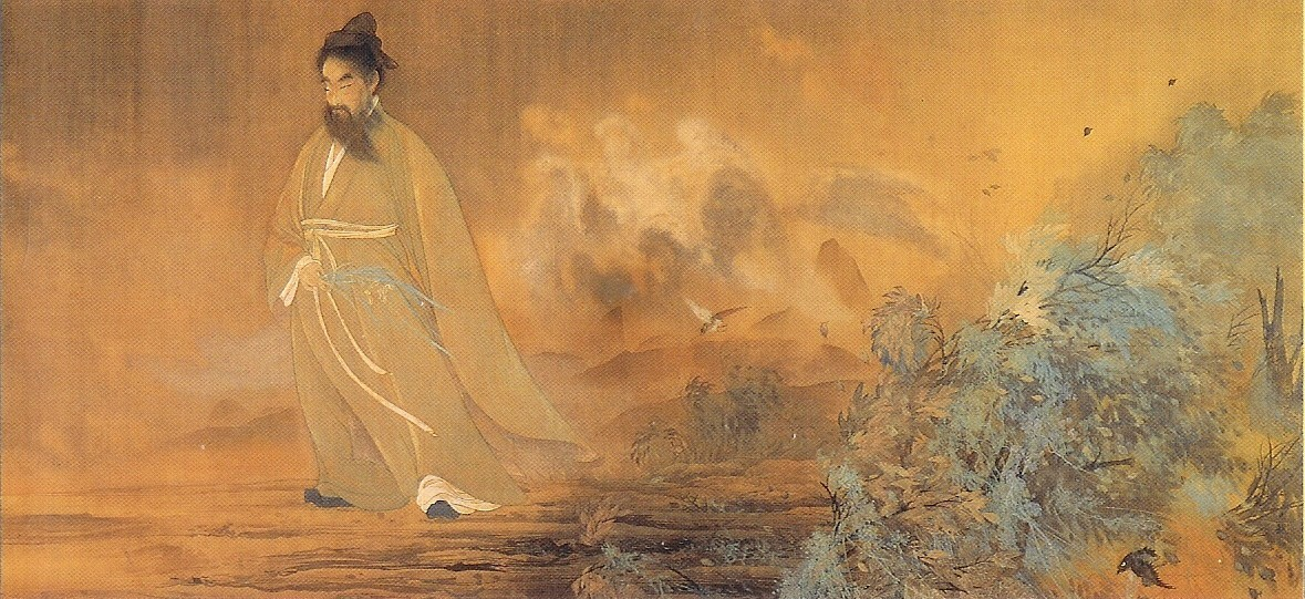 Painting: Qu Yuan